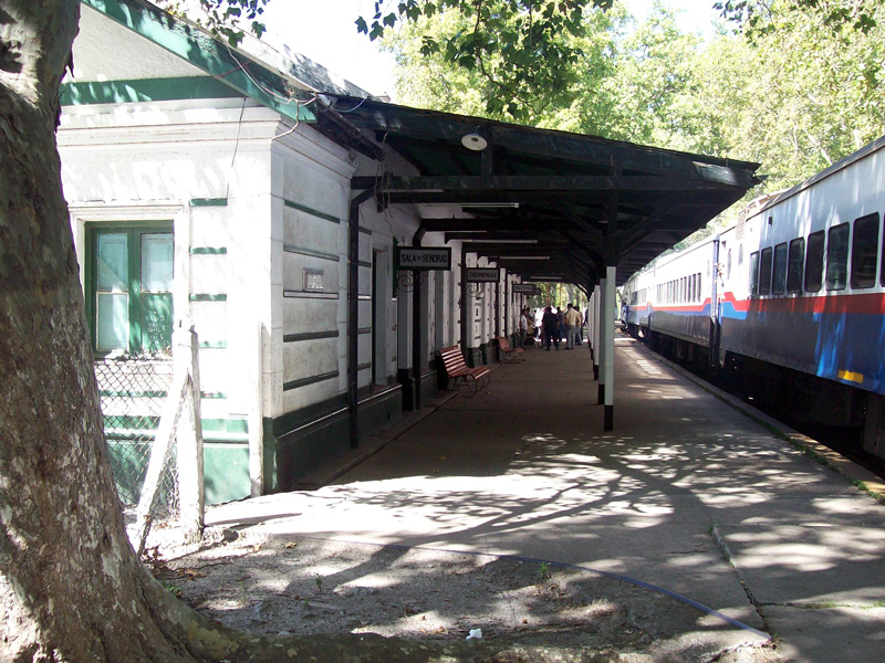 Dolores train station